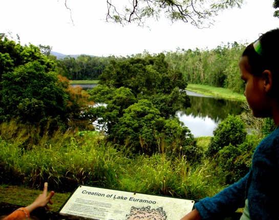 Lake Euramo − Ngimun, a lake in northern Queensland, Australia. An Australian Aboriginal cultural site and listed Cultural Landscape of Australia.